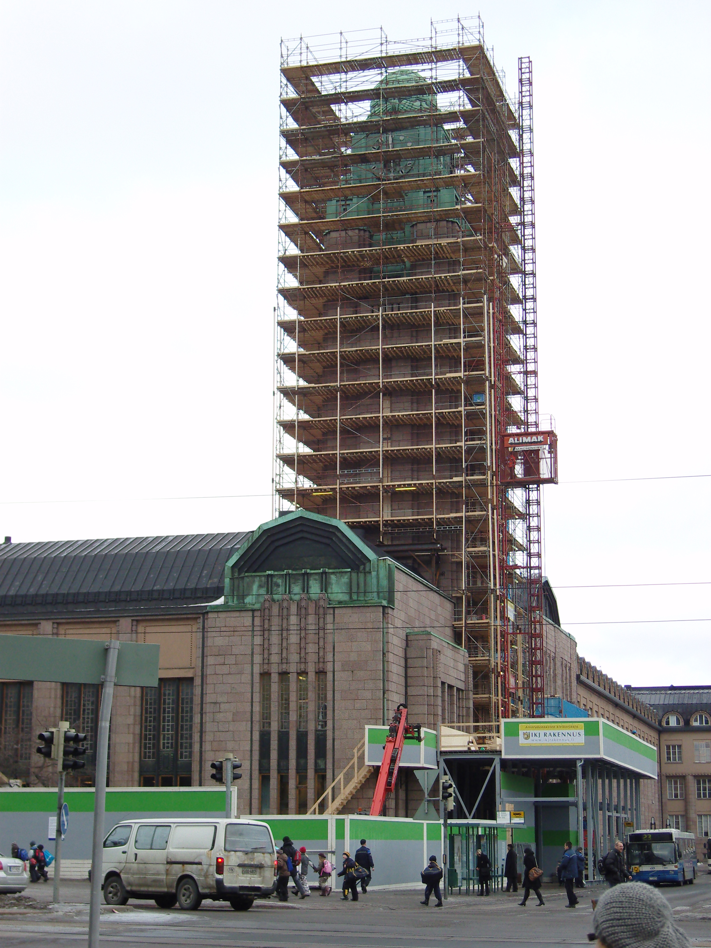 The tower of the Helsinki Central railway station under renovation